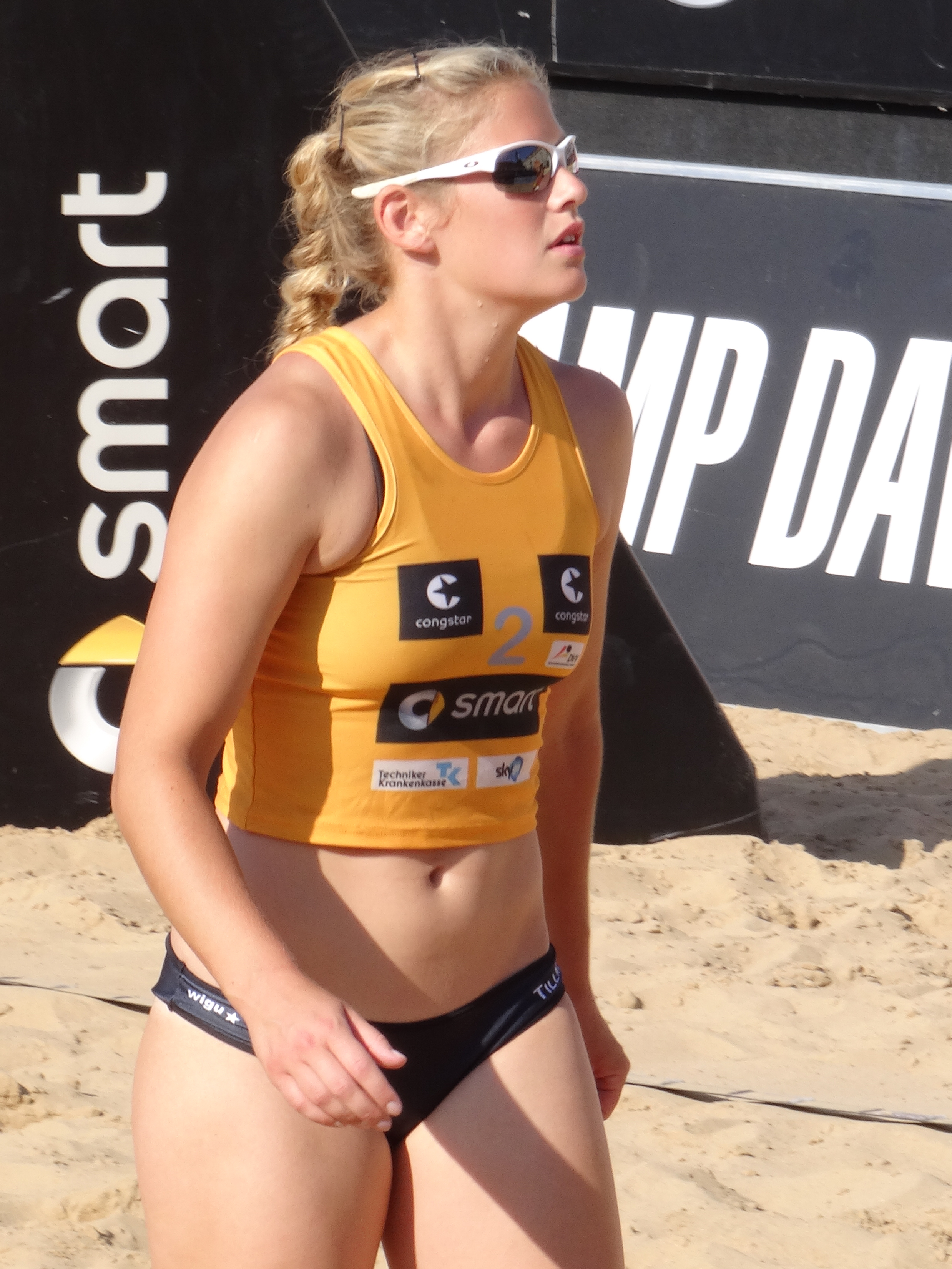 Cinja Tillmann, Smart Beach Tour Dresden 2014